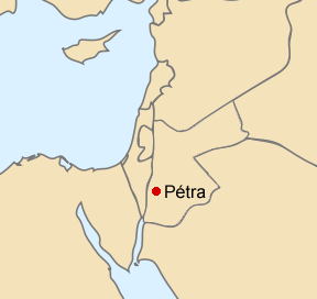 Petra's location with french typo